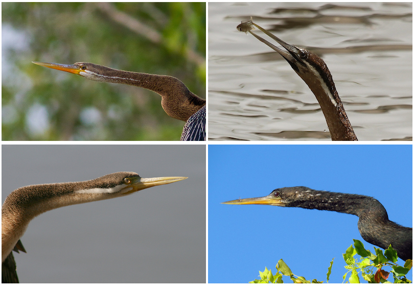 Study of the pale cheek stripe in four species of Anhingidae family. Upper left: Oriental darter (Anhinga melanogaster), upper right: African darter (Anhinga rufa), lower left: Australian darter (Anhinga novaehollandiae), lower right: Anhinga/American darter (Anhinga anhinga) with no visible cheek stripe